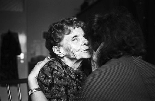 Resident of a nursing home in Munich (Germany)